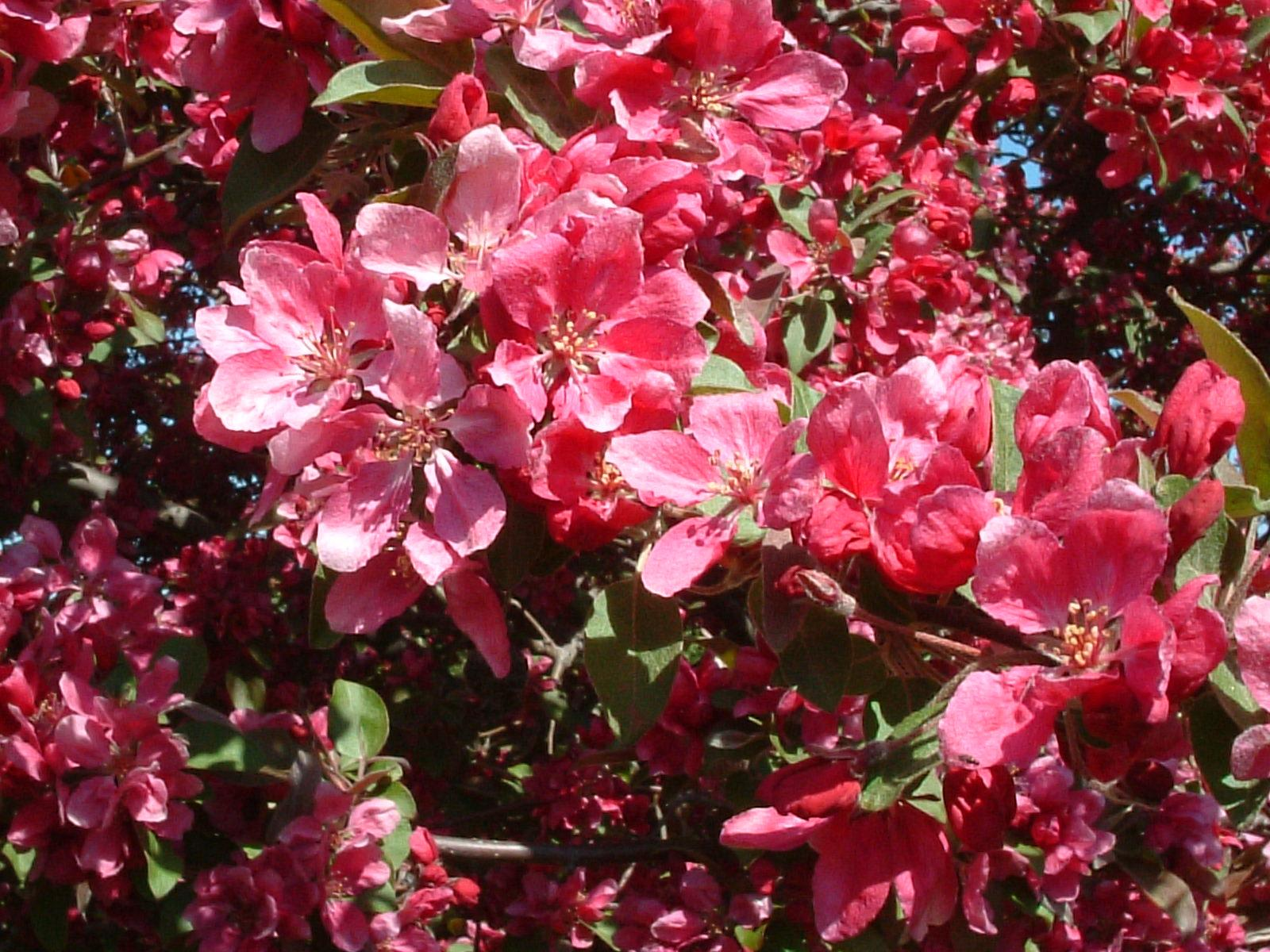 Malus floribunda - Pommier Japonais - Japanese flowering crabapple